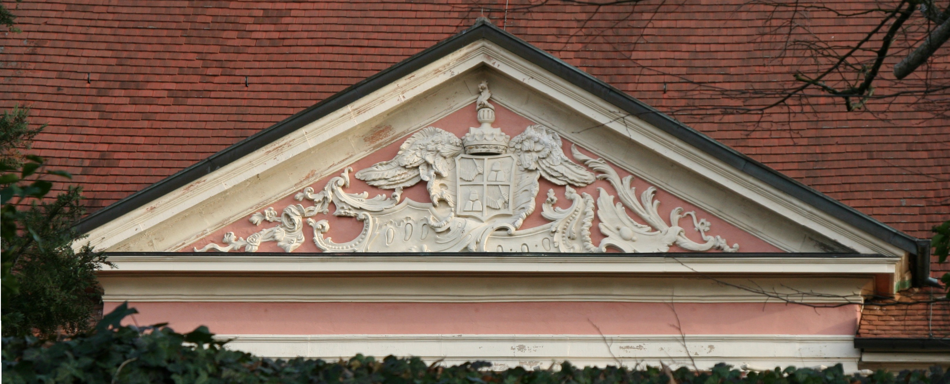 The castle in Obersulm-Eschenau